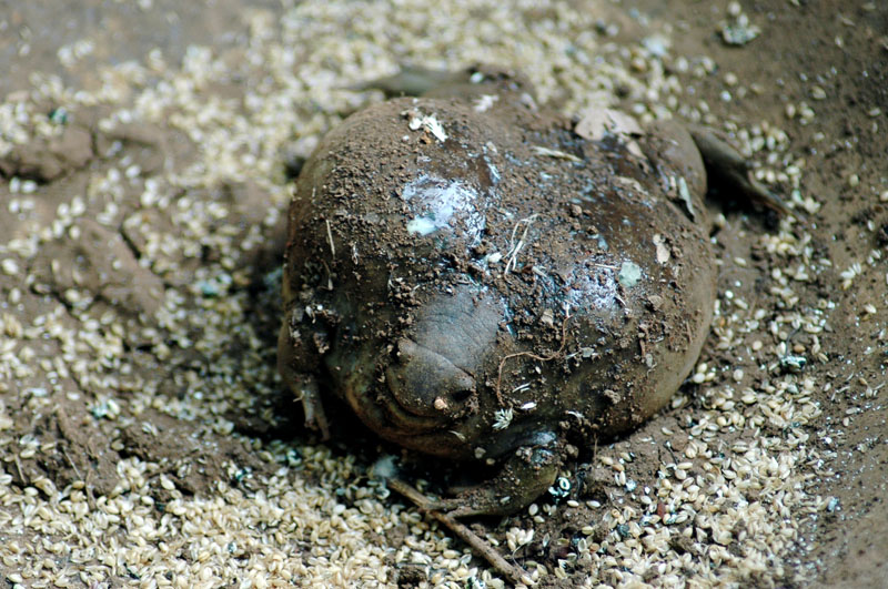 A narrow mouthed frog in India, commonly known as the Indian Balloon frog (Uperodon globulosus) or the Greater Balloon Frog